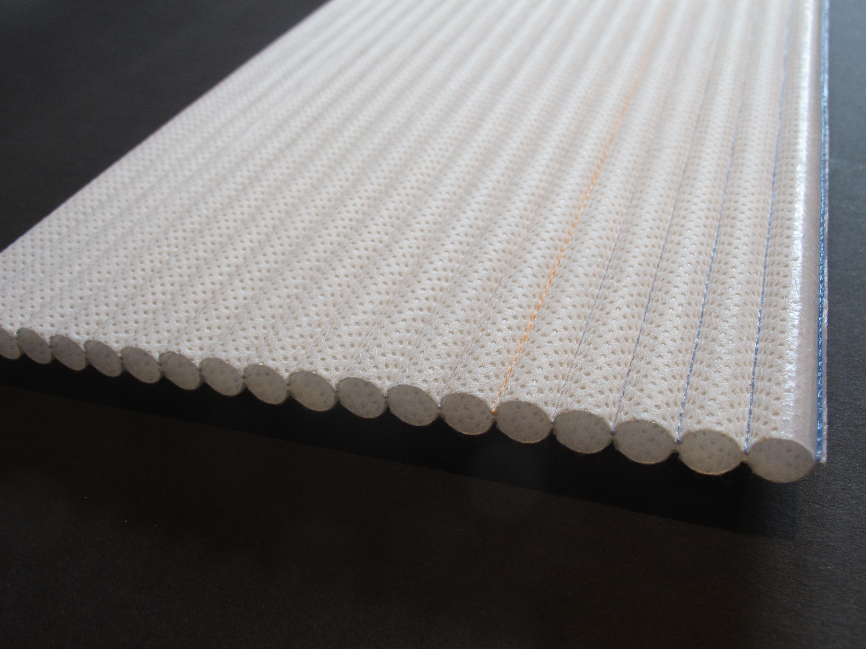 Example of a gauntlet with 19 tubes, made of non-woven polyester fabric, with hotmelt side protection